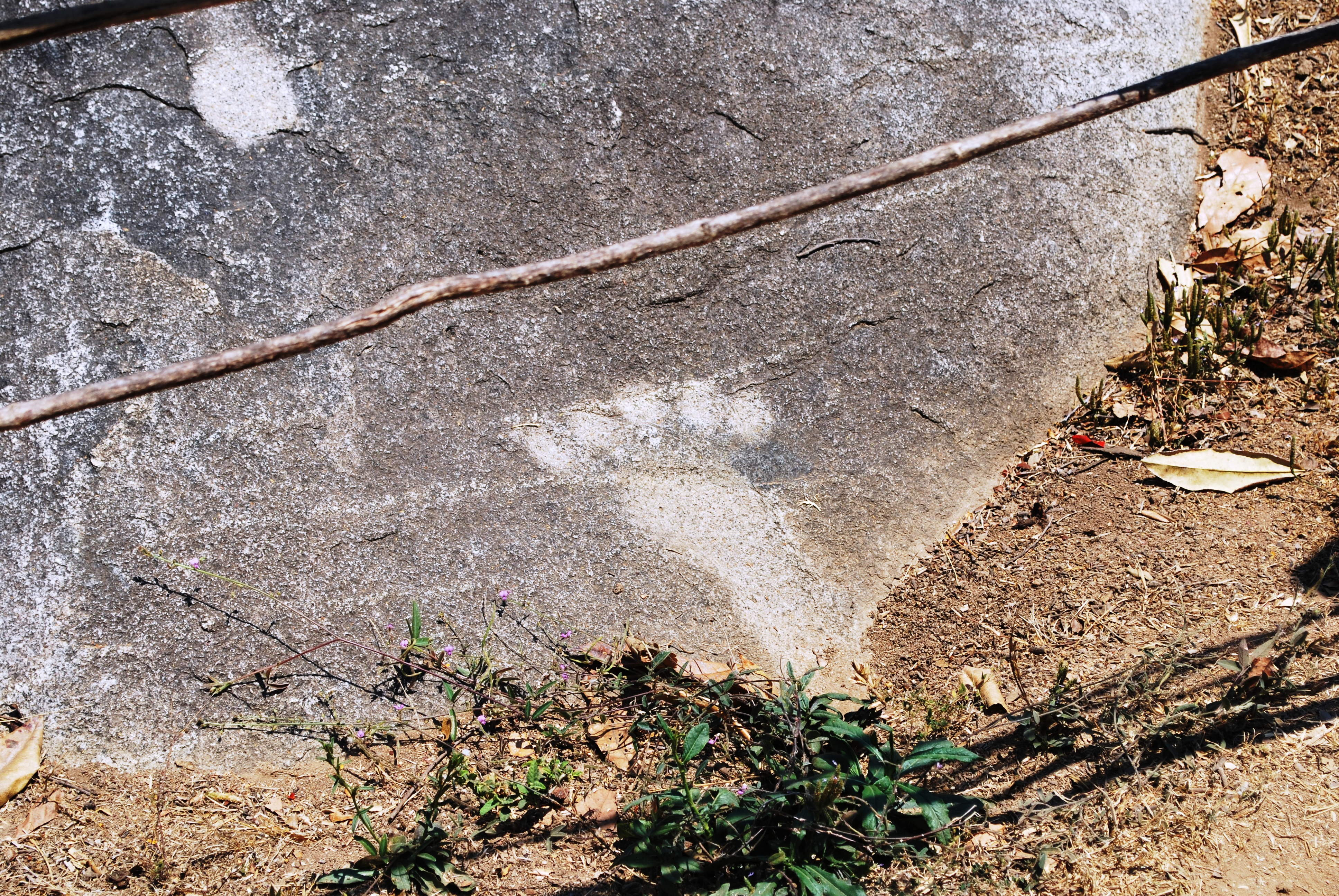 Stone with footprints etched into them called the Giant's footprints